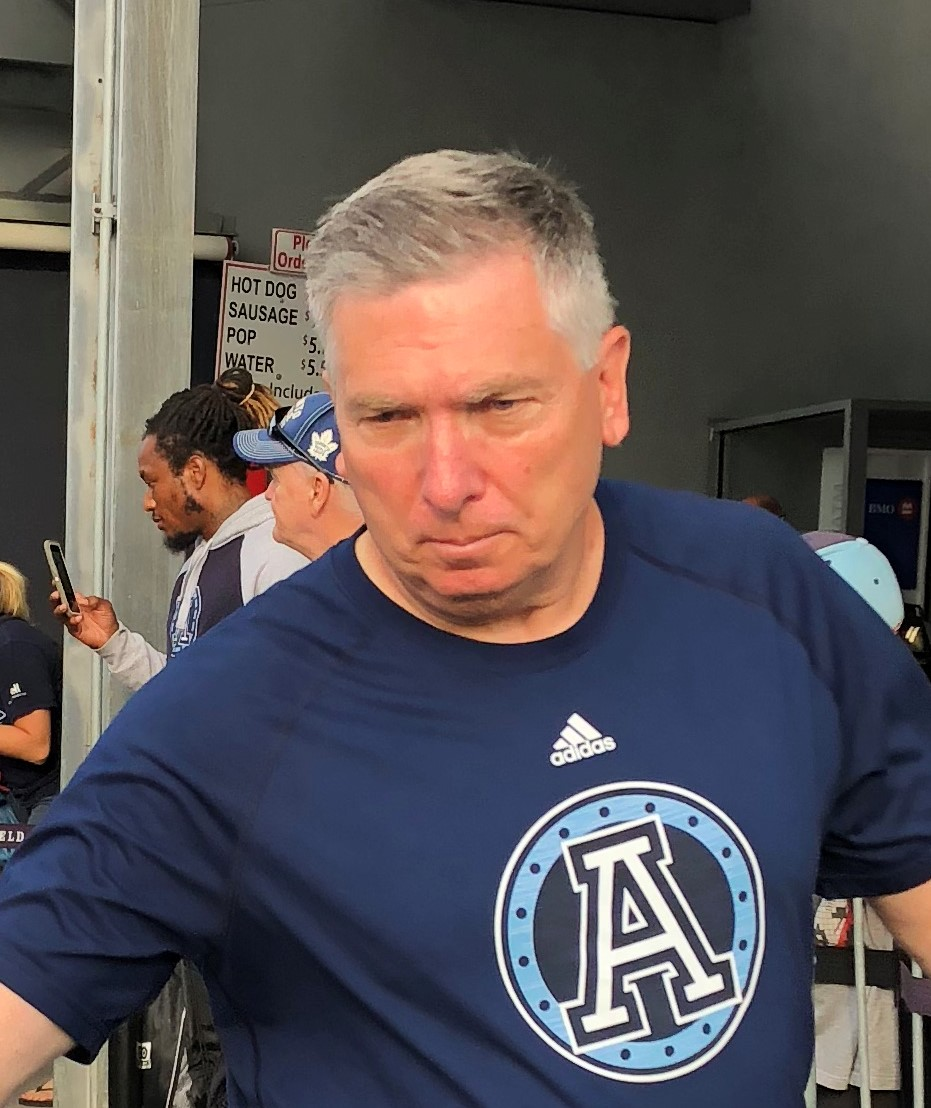 Greg Quick, Linebackers coach for the Toronto Argonauts.